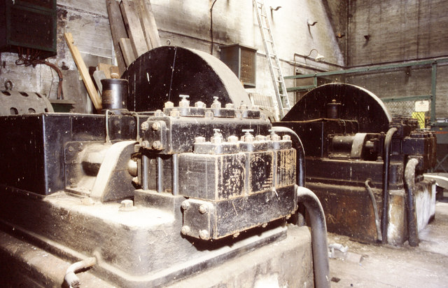 Hydraulic pumps, LNWR warehouse, Stockport The LNWR warehouse used hydraulic plant for moving wagons and for lifting in the warehouse. These two motor driven, three-throw pumps provided the water hydraulic power. They are now disused.